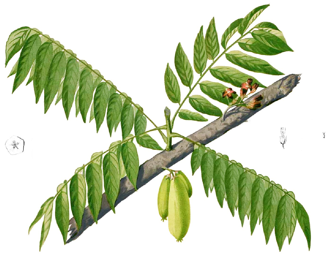 Plate from book